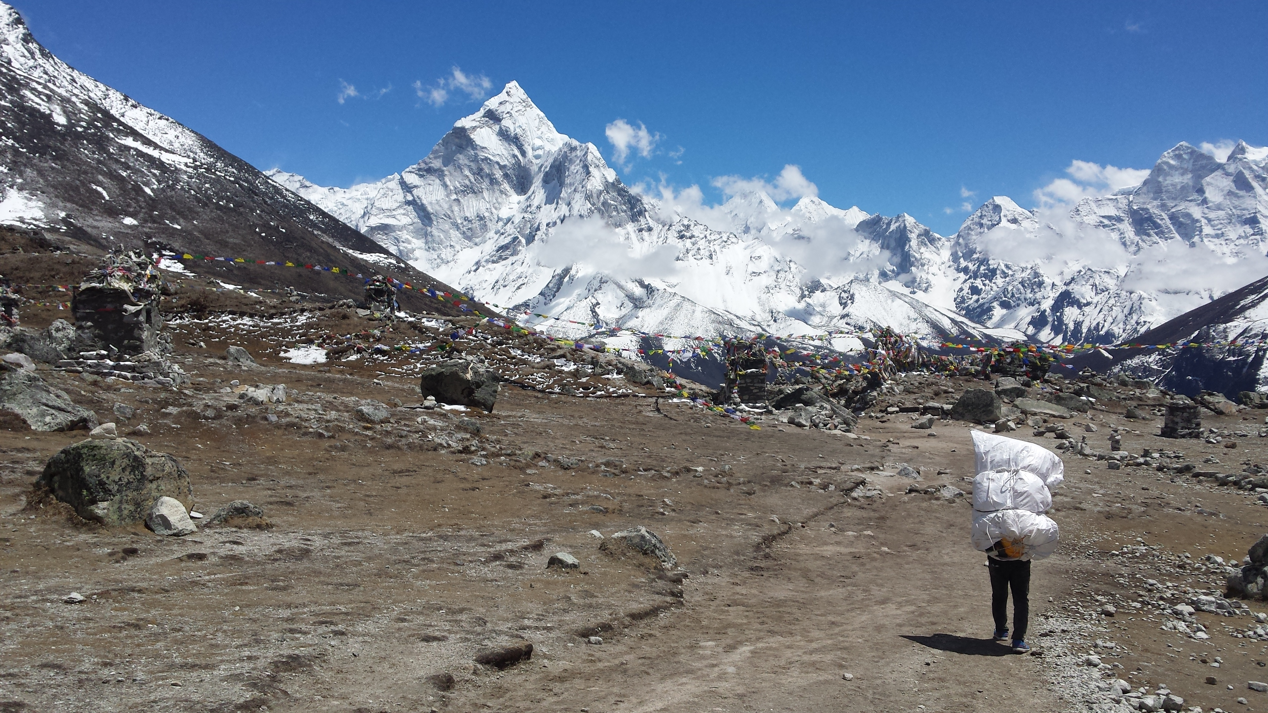 Mt Ama Dablam seen from above Dhugla